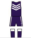 My digital design of the current fremantle jumper. Minus sponsors and AFL logo.